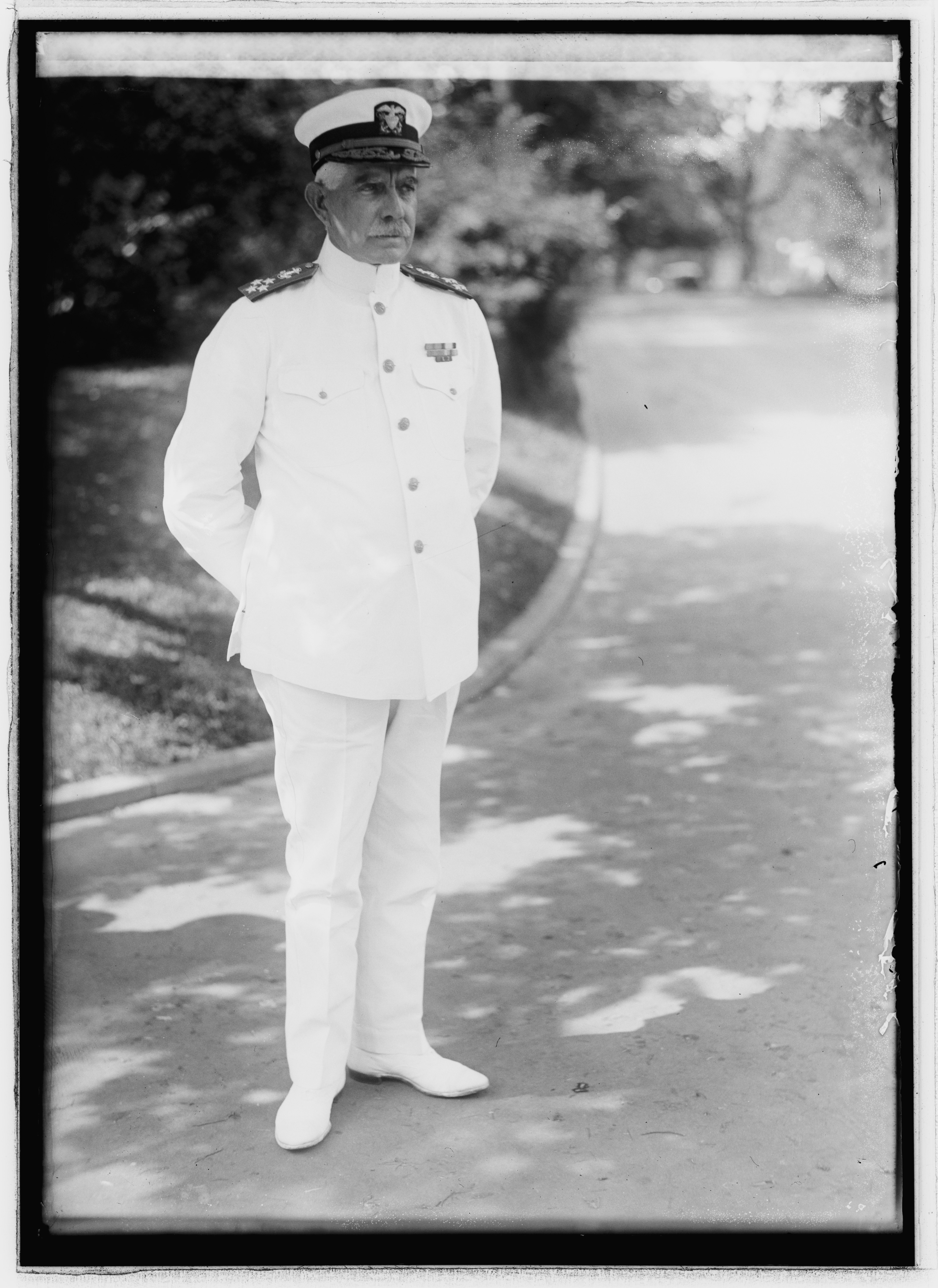 Title: Vice Admiral Hilary P. Jones, [7/14/21] Abstract/medium: 1 negative : glass ; 5 x 7 in. or smaller